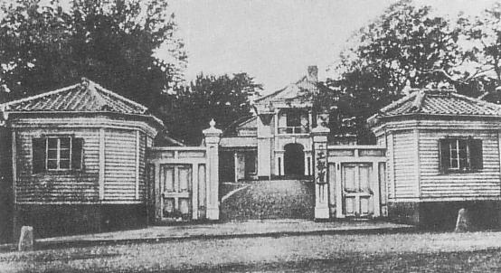 Ministry of Industry in Meiji era